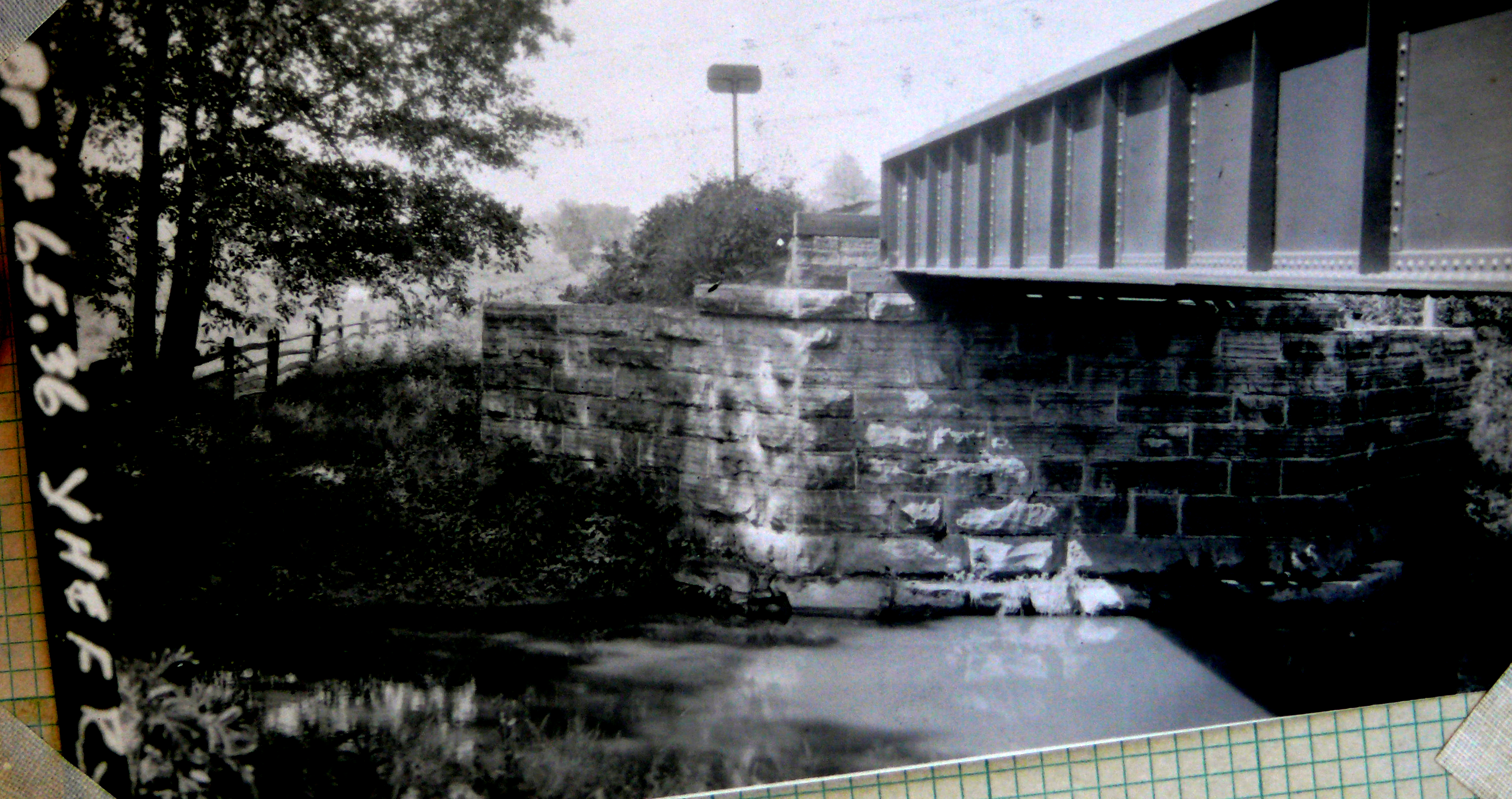 Interstate Commerce Commission survey of the Frederick and Northern railroad, predecessor (Frederick and Pennsylvania Line Railroad Company (F&PL)) Tuscarora Creek (Monocacy River) bridge taken in December 1915 as bridge 65.40.